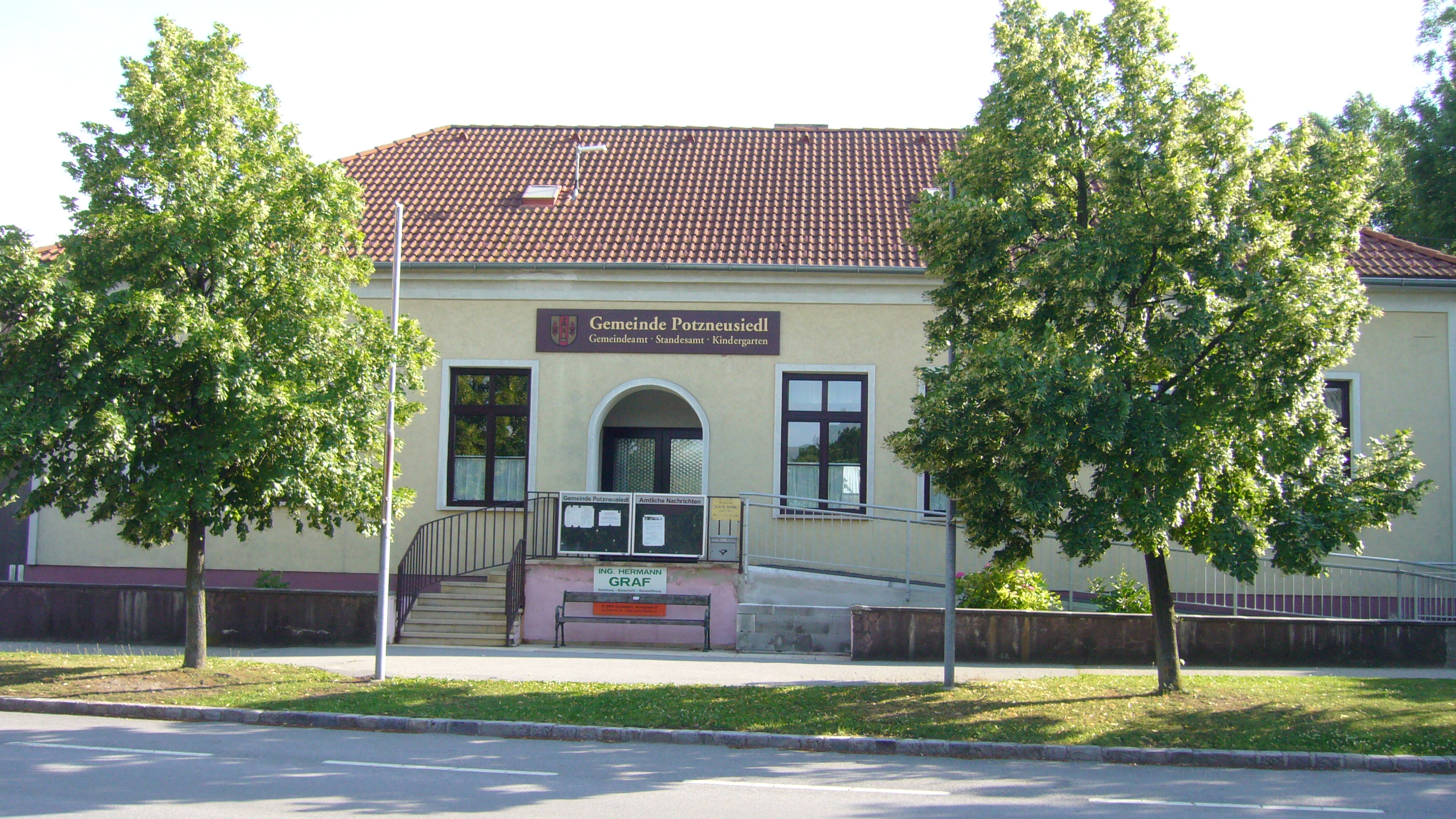 Municipal office Potzneusiedl